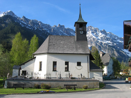 Hinterthal Church